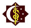 Logo for the US Army Medical Materiel Center-Southwest Asia